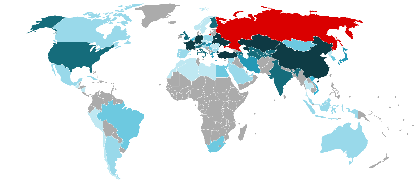 Putin presidential international trips